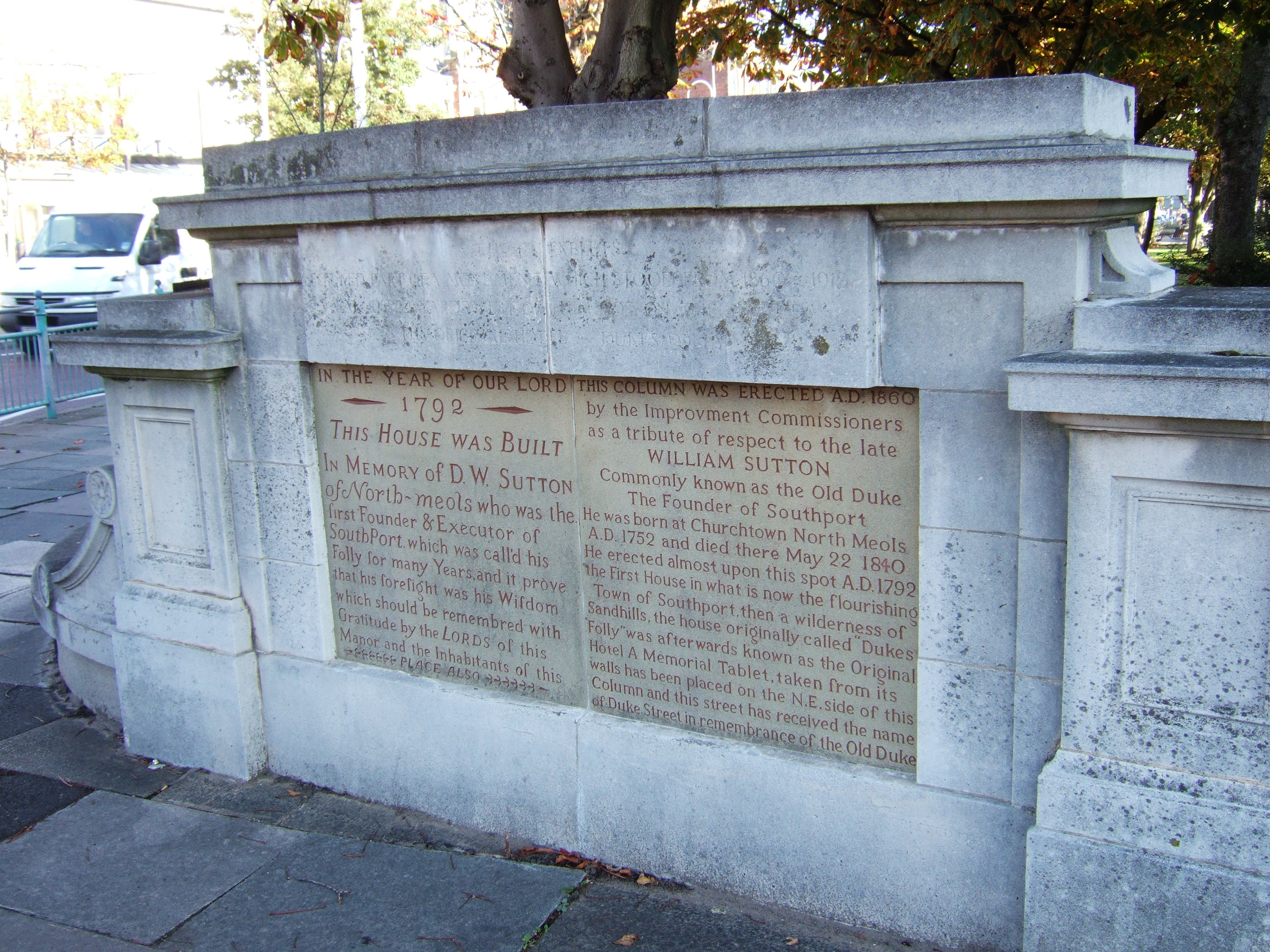 Plaque dedicated to William Sutton, located on the corner of Duke Street in Southport, Merseyside, England.